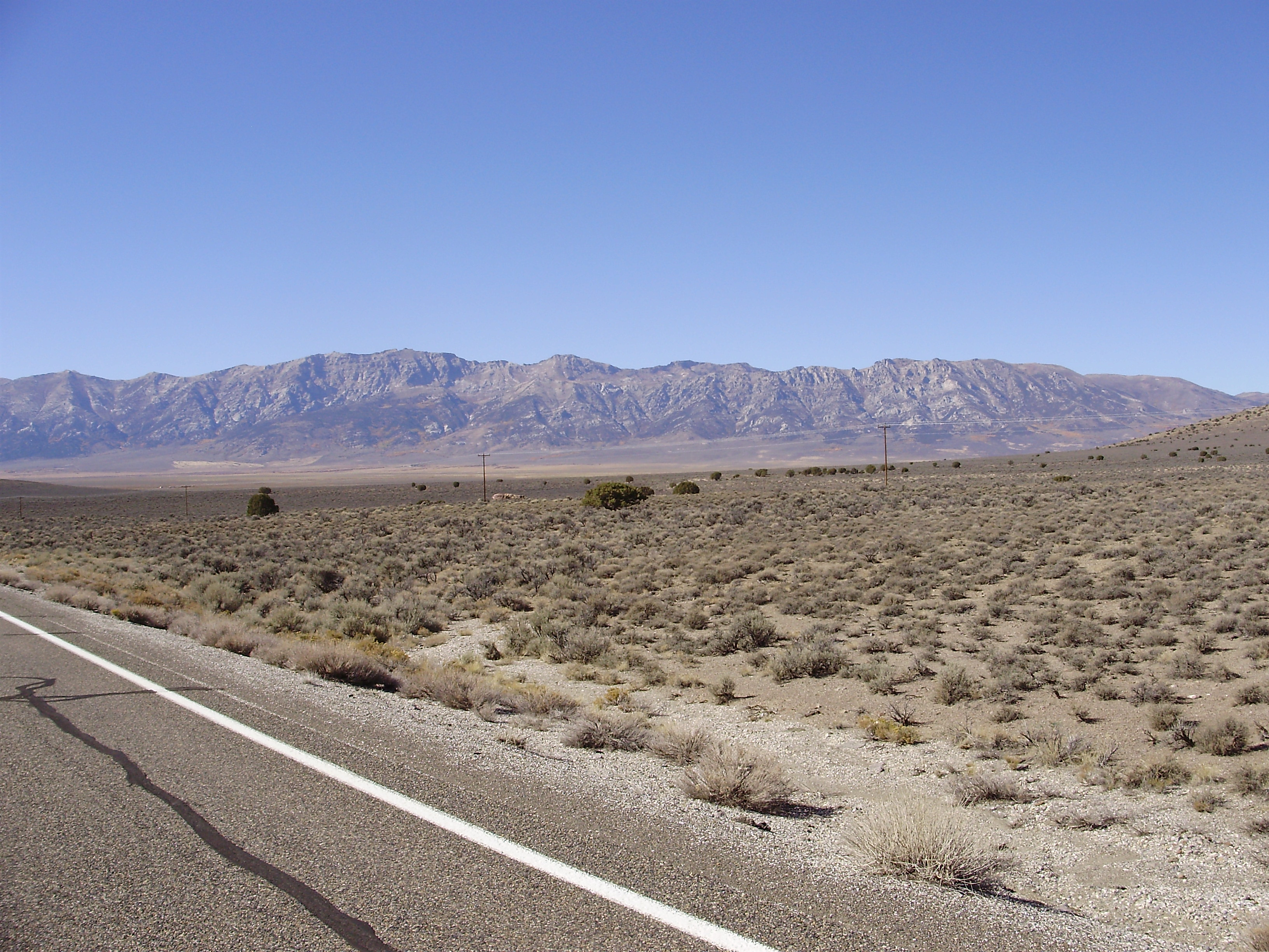 View from Nevada State Route 229 northwest towards the northern Ruby Mountains